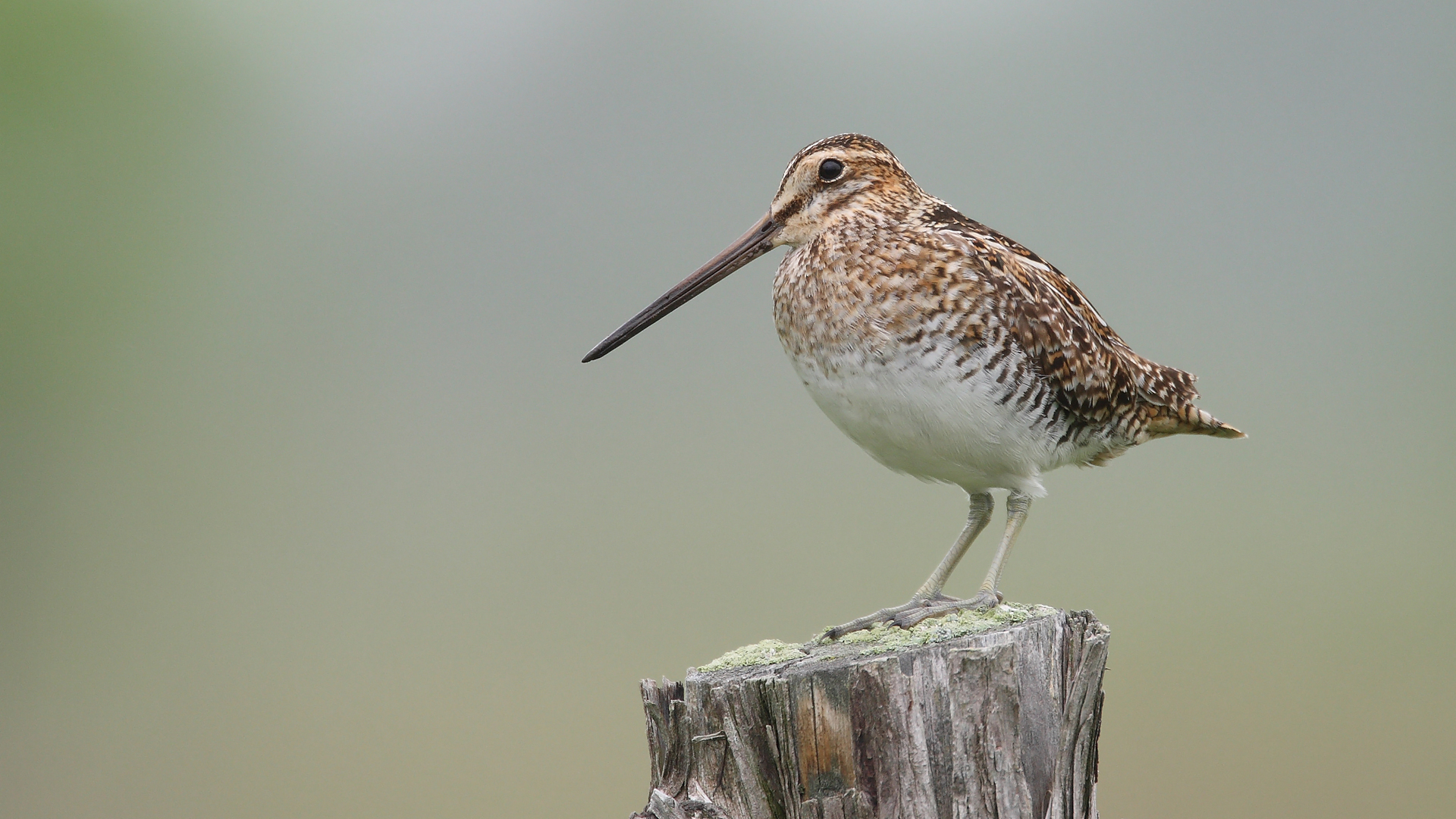 Wilson's Snipe – Kirkfield, Ontario, Canada – 2008 June